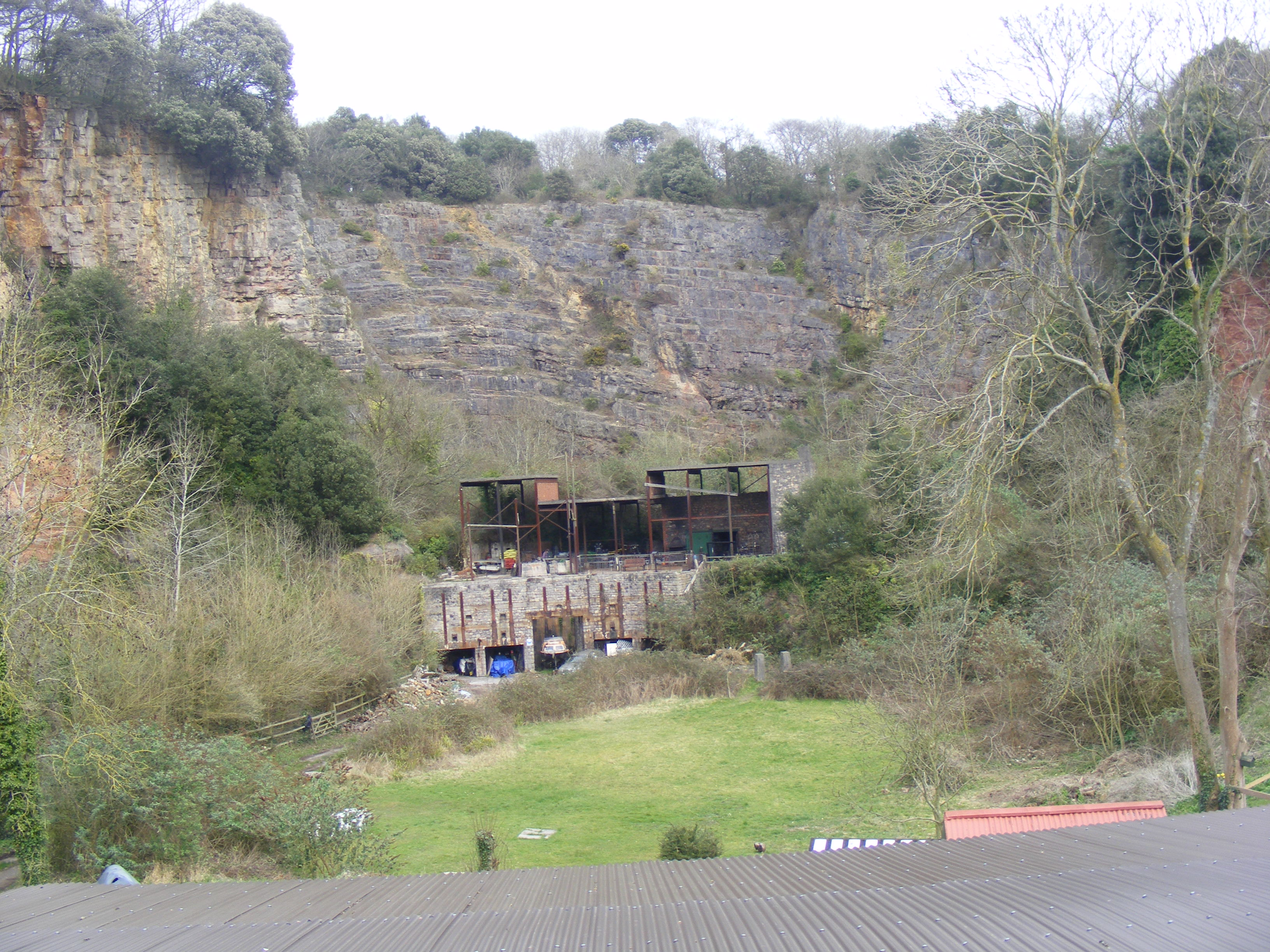 Unnamed quarry on Worlebury Hill, Weston super Mare. At OS grid ref ST320624